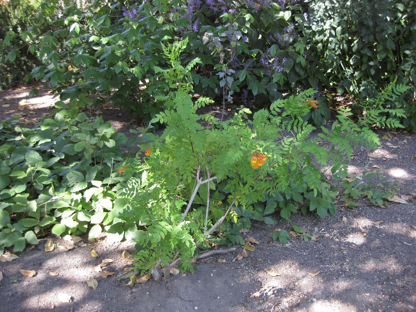 Photographed at Huntington Gardens (Los Angeles) in October